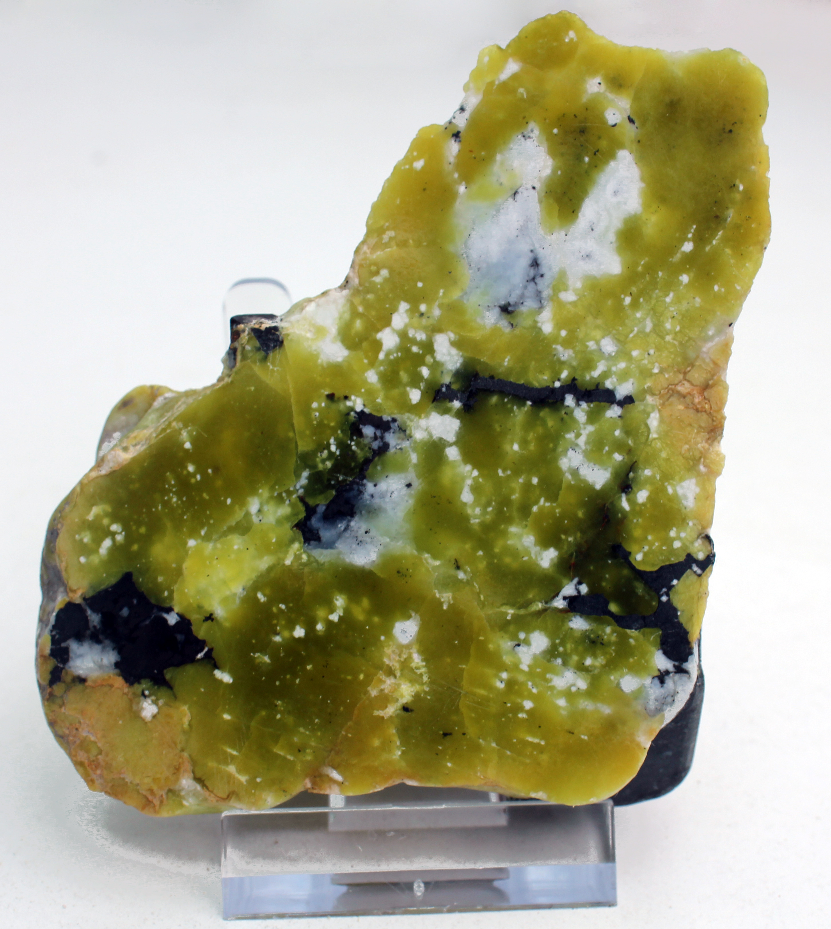 Lizardite (green) with Magnesite (white) and Hematite (black) from Uppland (Sweden)